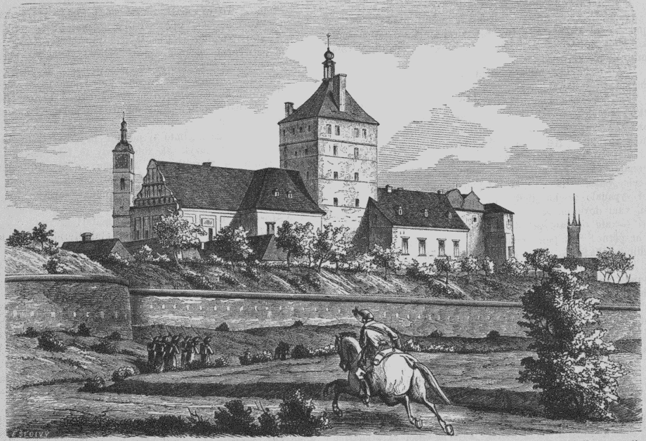 Castle of Pardubice, shown within a "War pictures" (Obrazy válečné) series in preparation for Battle of Königgrätz. According to the article below this picture, Pardubice castle was considered as one of the possible seats of General Benedek, Austrian leader during the Prussian war.